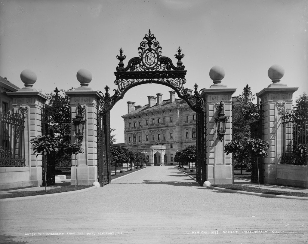 The Breakers gate in Newport, Rhode Island, 1899